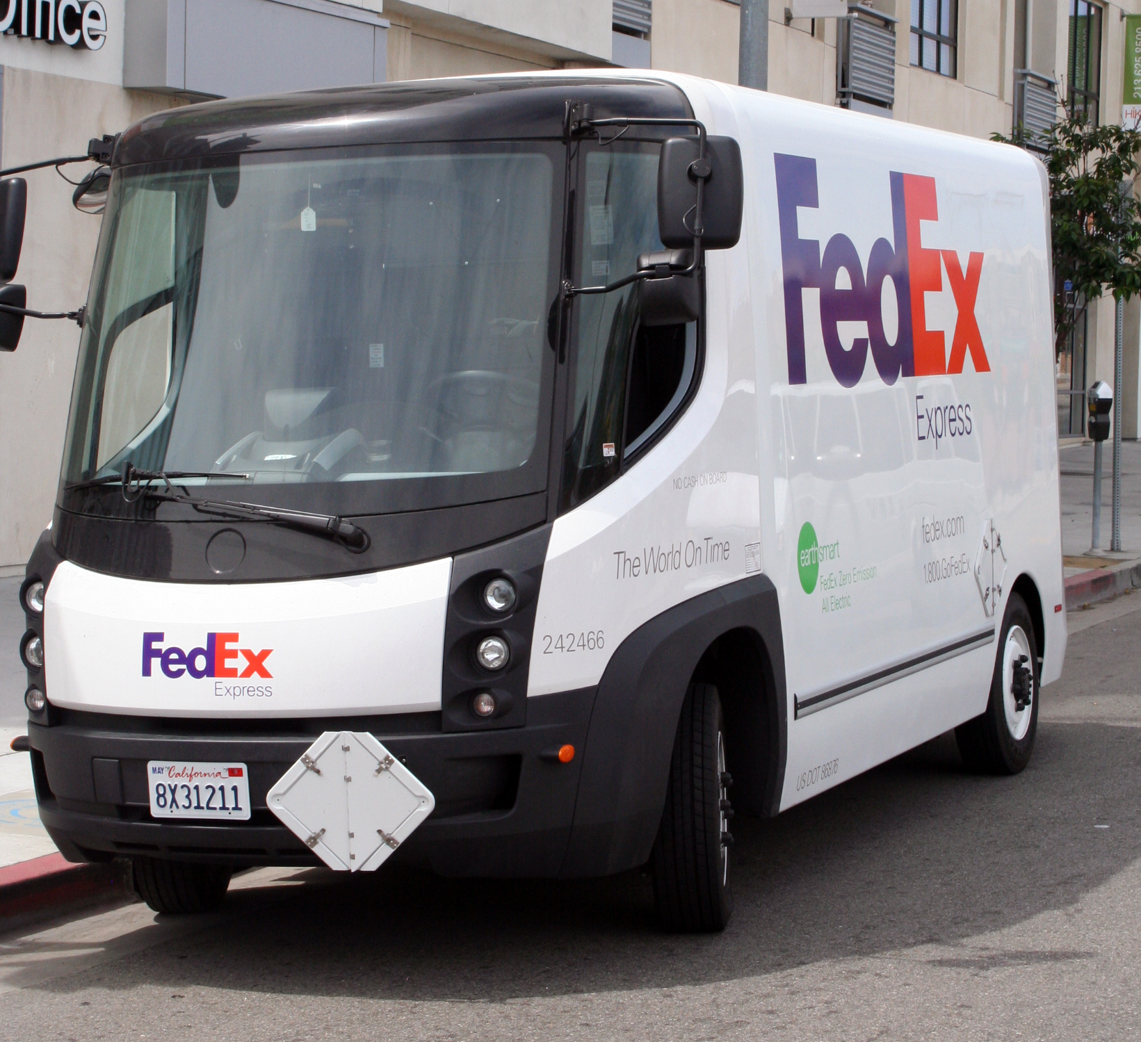 eStar electric truck in use by FedEx in Los Angeles, California. Production of these EVs in the U.S. by Navistar was under license from British Modec and the first trucks were delivered to FedEx in May 2010. Navistar Internation bought the intellectual property rights from Modec's bankruptcy administrators in 2011.